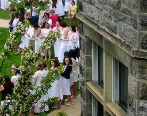 This is a photo from May, 2003. This photo was taken at Bryn Mawr College.